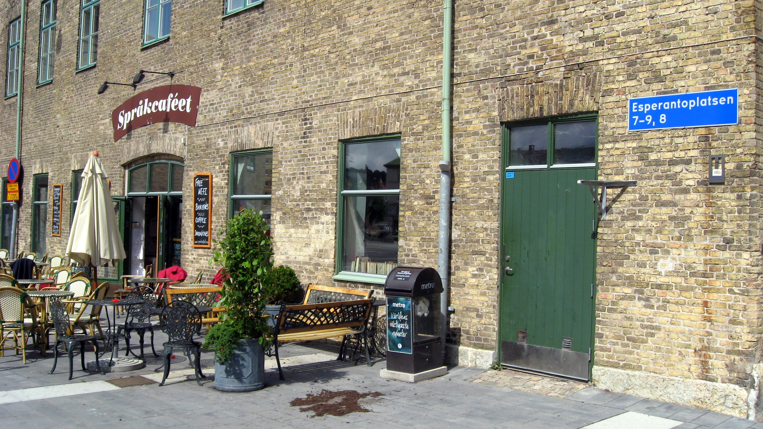 Gothenburg (Göteborg), Sweden, The Language Cafe (Språkcafeet) on The Esperanto Square